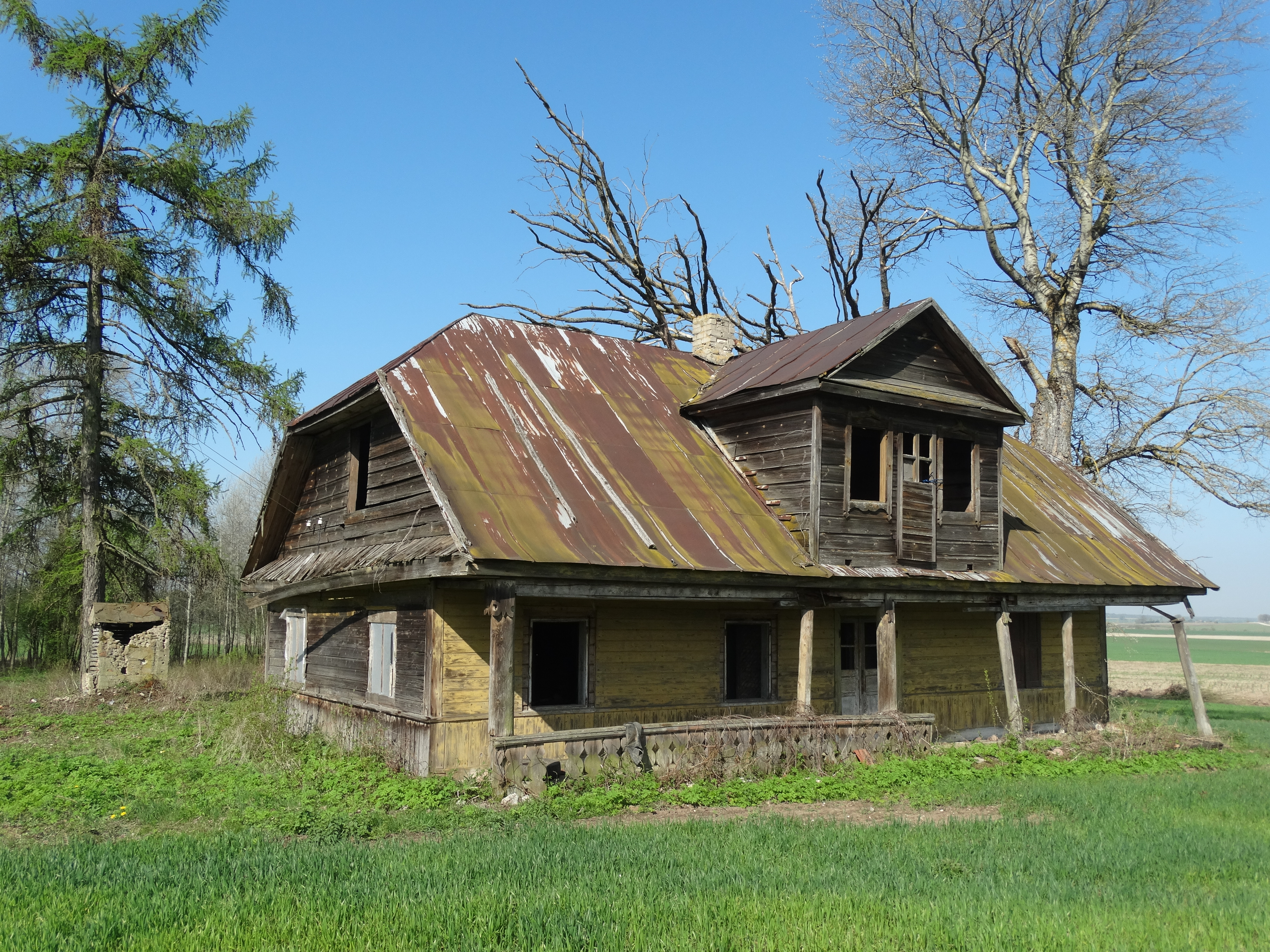 Eiriogala, Kaišiadorys District, Lithuania